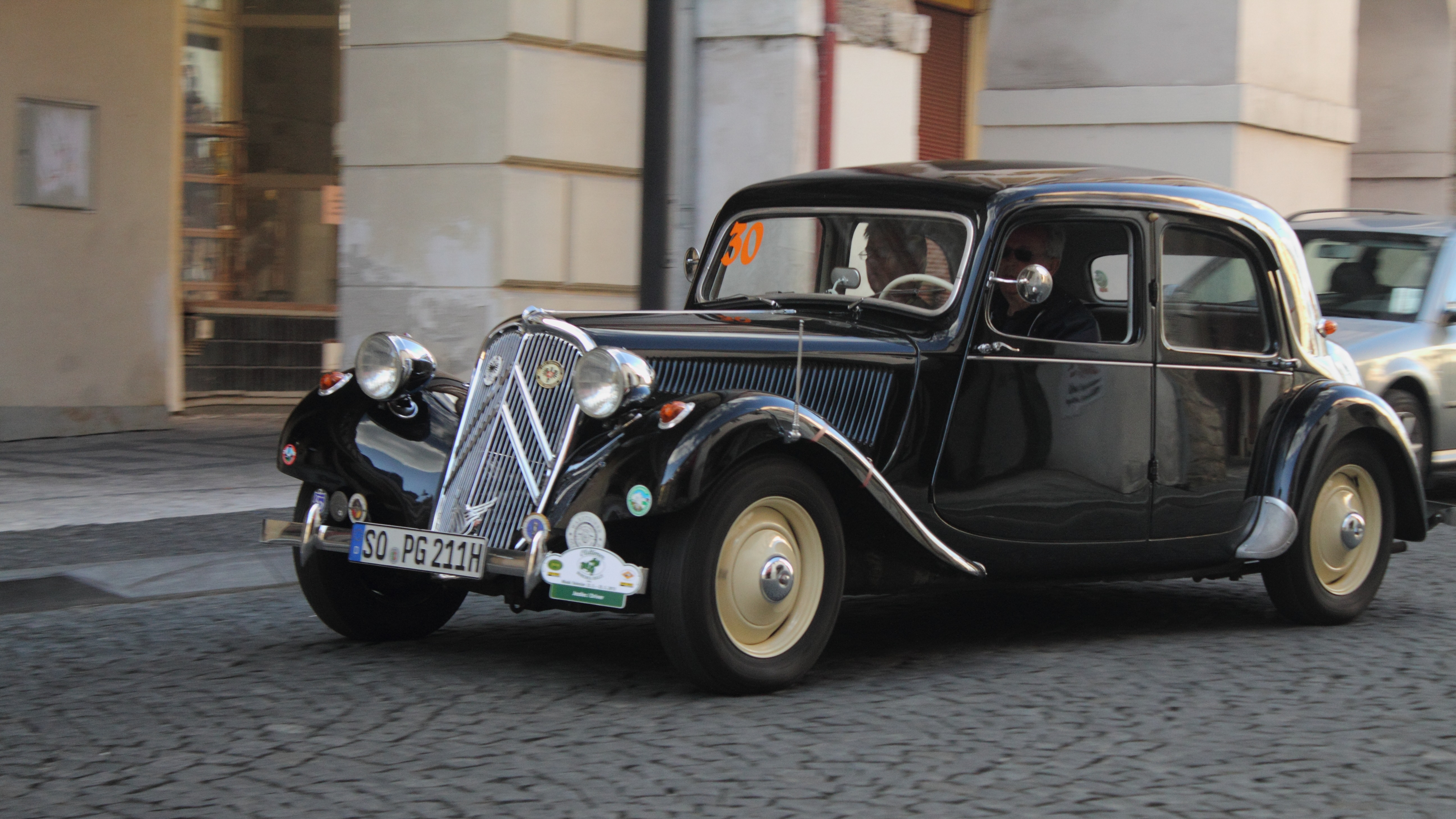 Citroen 11 CV (1955), 2013 Oldtimer Bohemia Rally, Mladá Boleslav